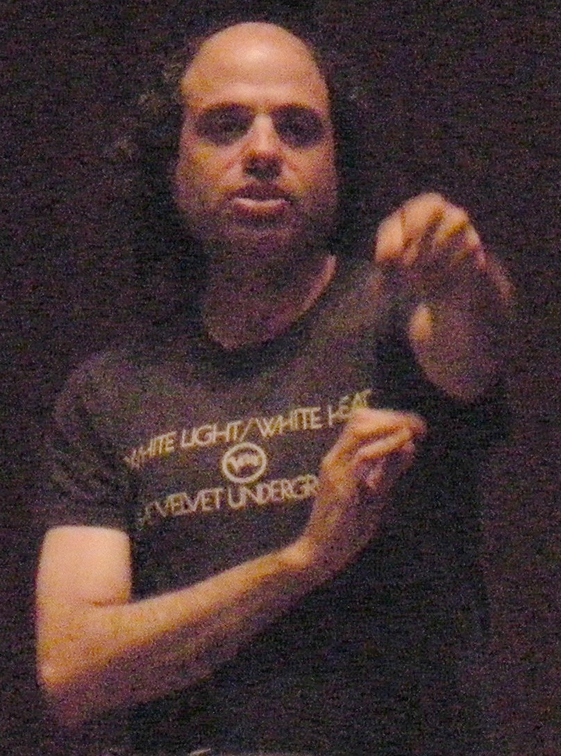 Richie Unterberger (author of White Light/White Heat: The Velvet Underground Day-By-Day, 2009) appearing at the Seattle Central Library, along with Doug Yule (formerly of the Velvet Underground, not shown).